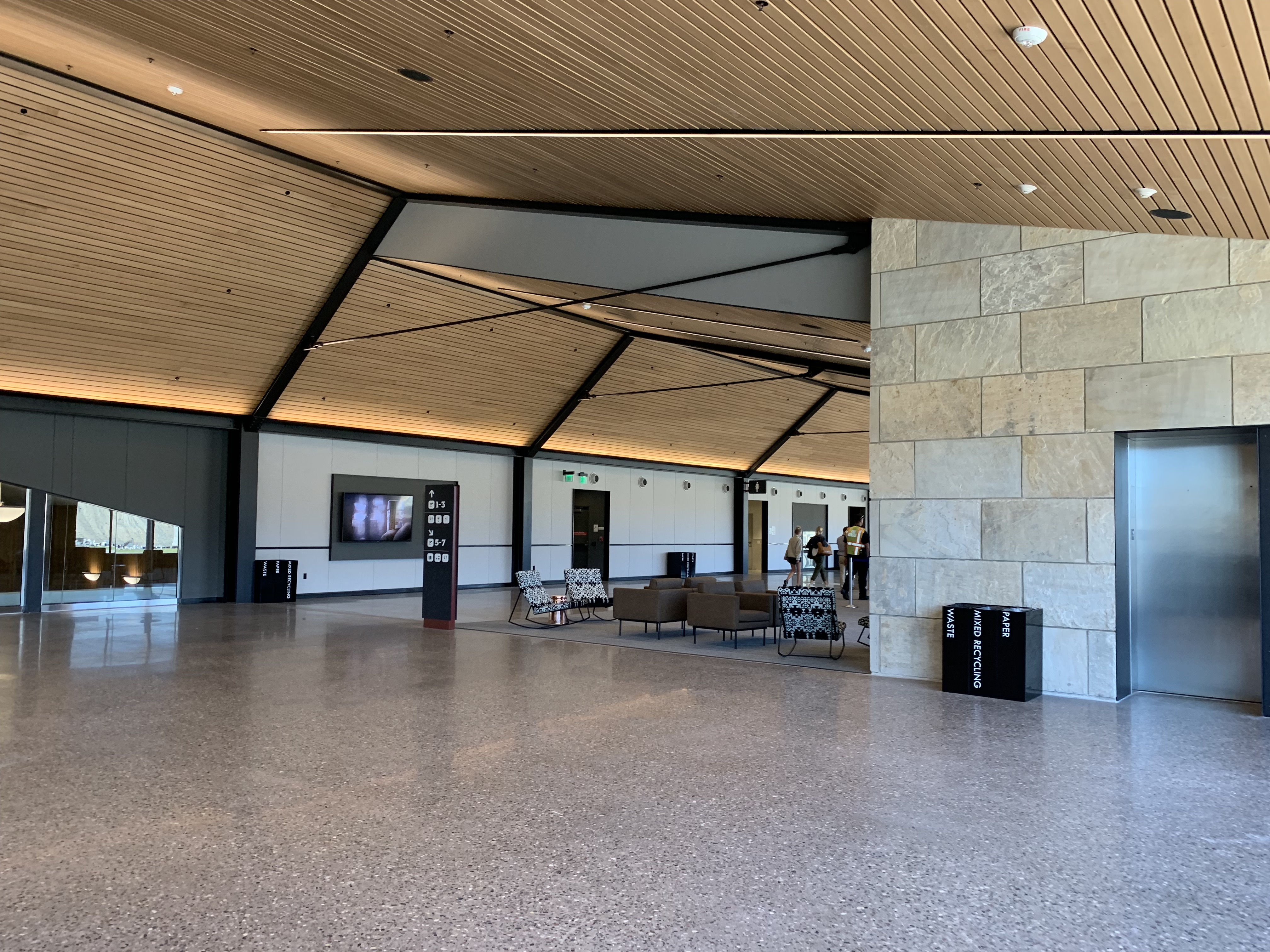 Photo of new Eagle County Regional Airport Terminal building